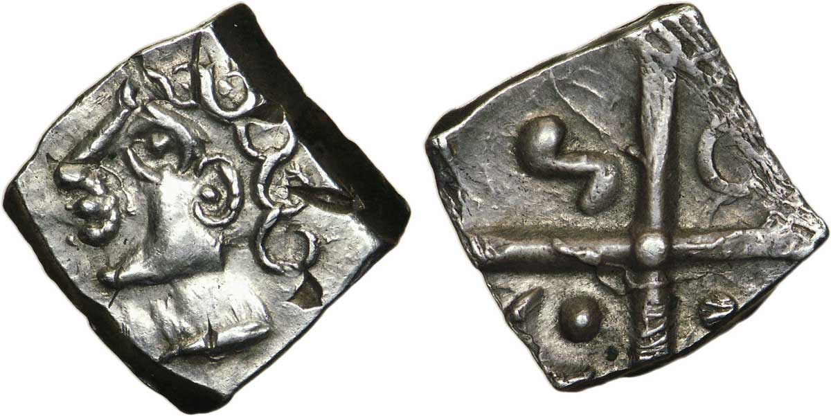 Drachme "à la tête bouclée du Causé" frappé par les Sotiates Date : IIe-Ier siècles av. J.-C.